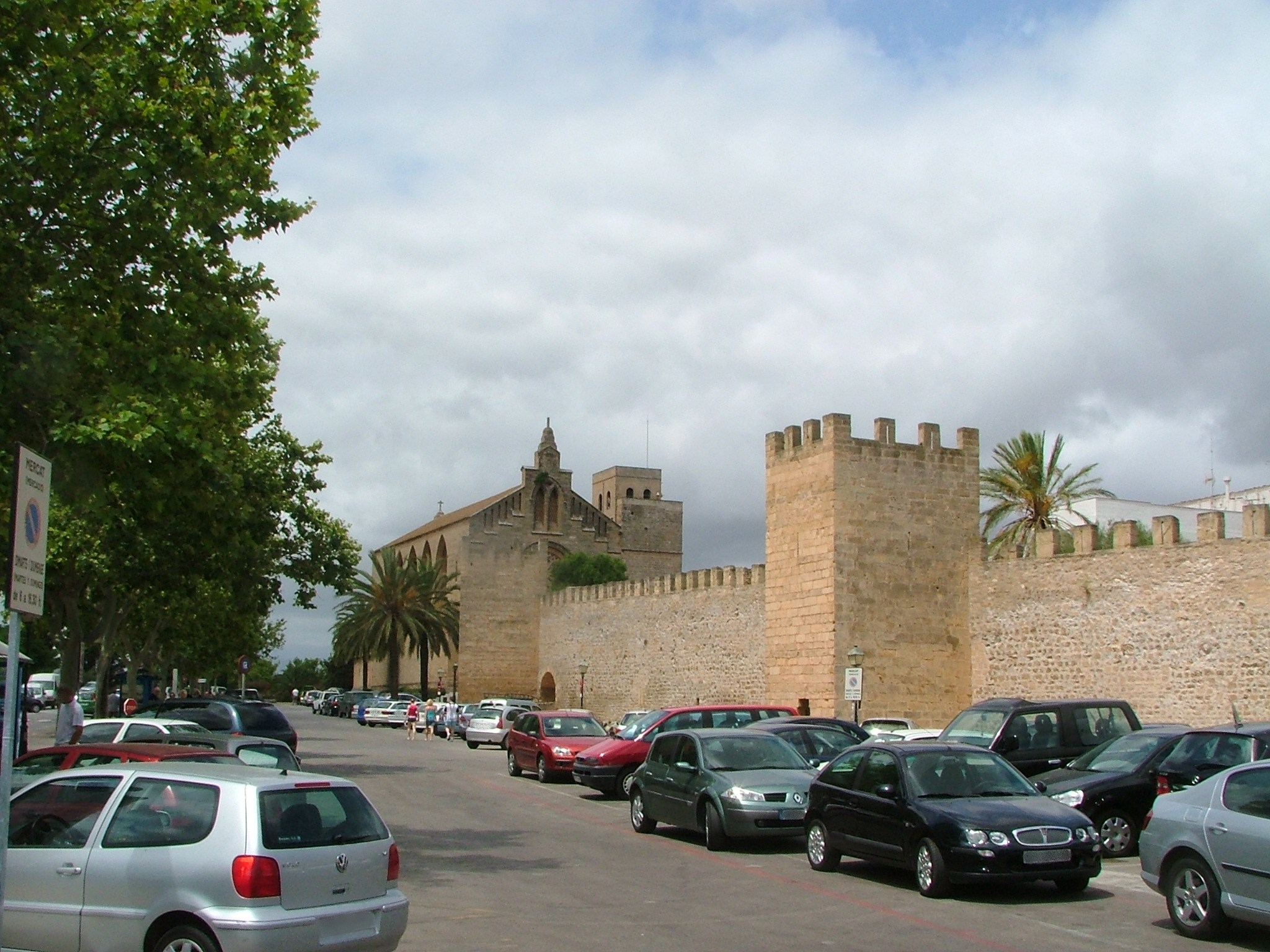 Church and walls of Alcudia, Mallorca, Spain